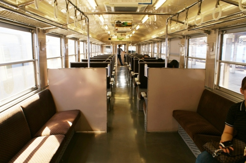 Interior of JR Kyushu 455 series EMU car KuHa 455-2 included in 475 series set Gk29